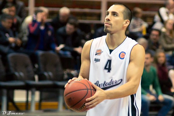 Saratov